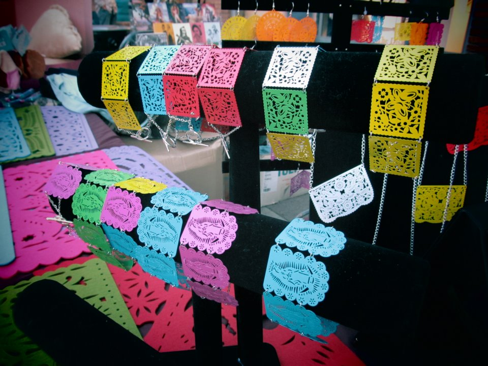 Mexican crafts. Jewelery. Paper imitation.